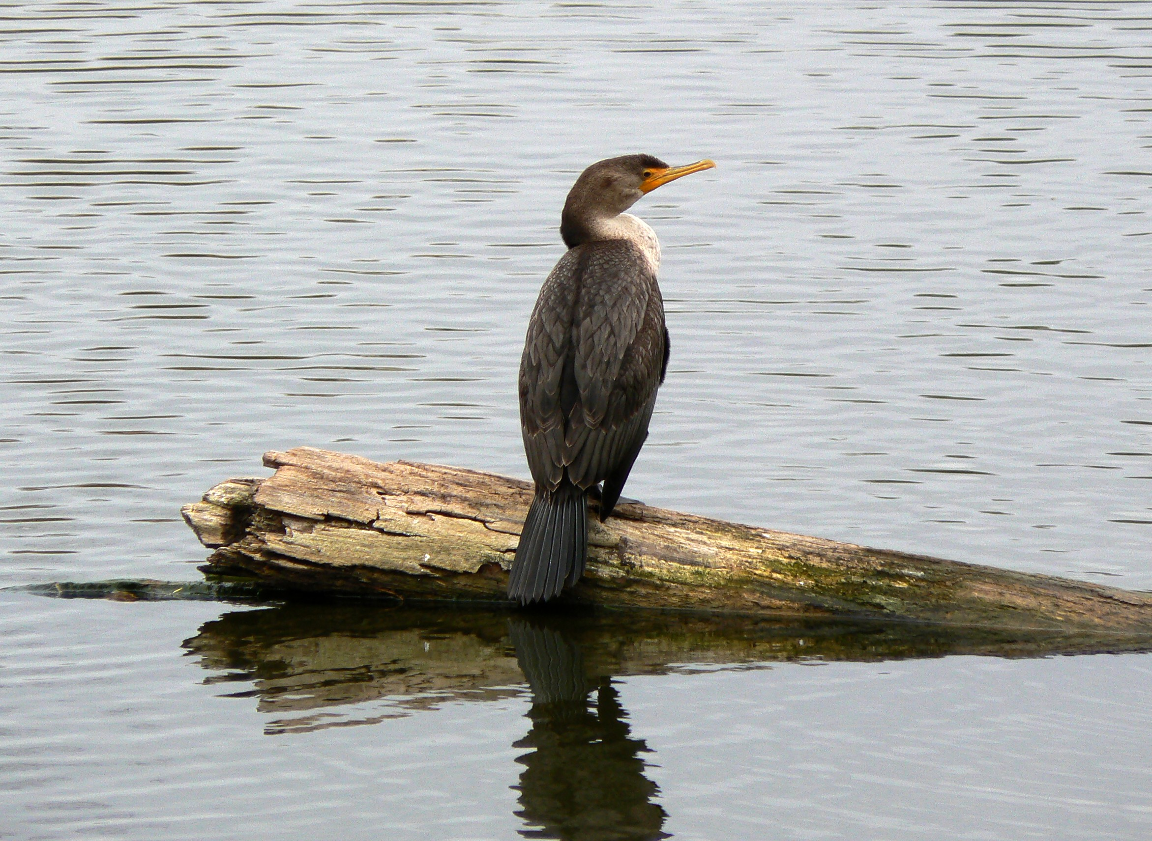 Double-crested Cormorant Phalacrocorax auritus